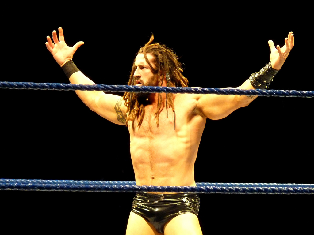 Tyler Reks at a WWE show on November 5, 2010.